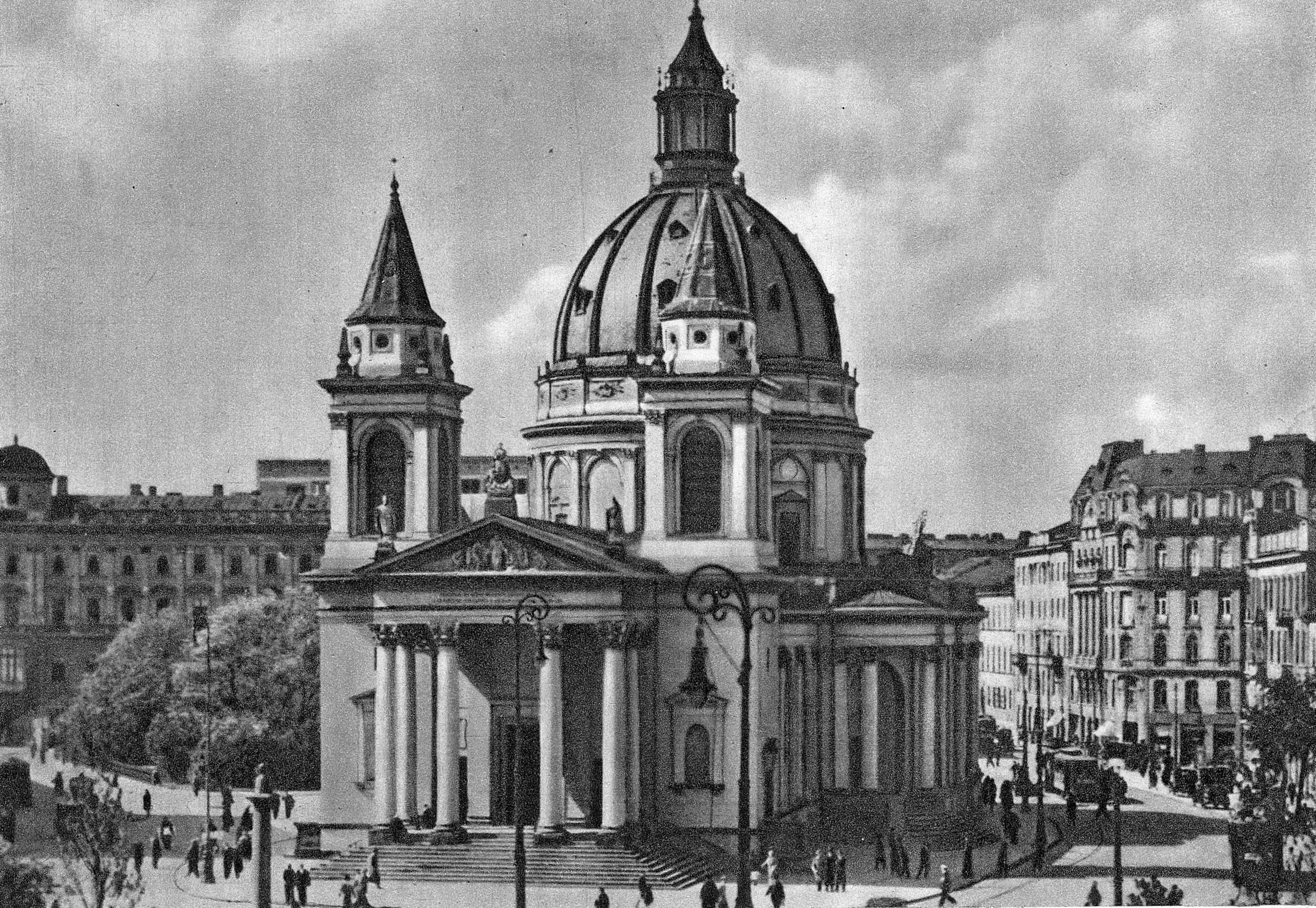 Saint Alexander church in Warsaw